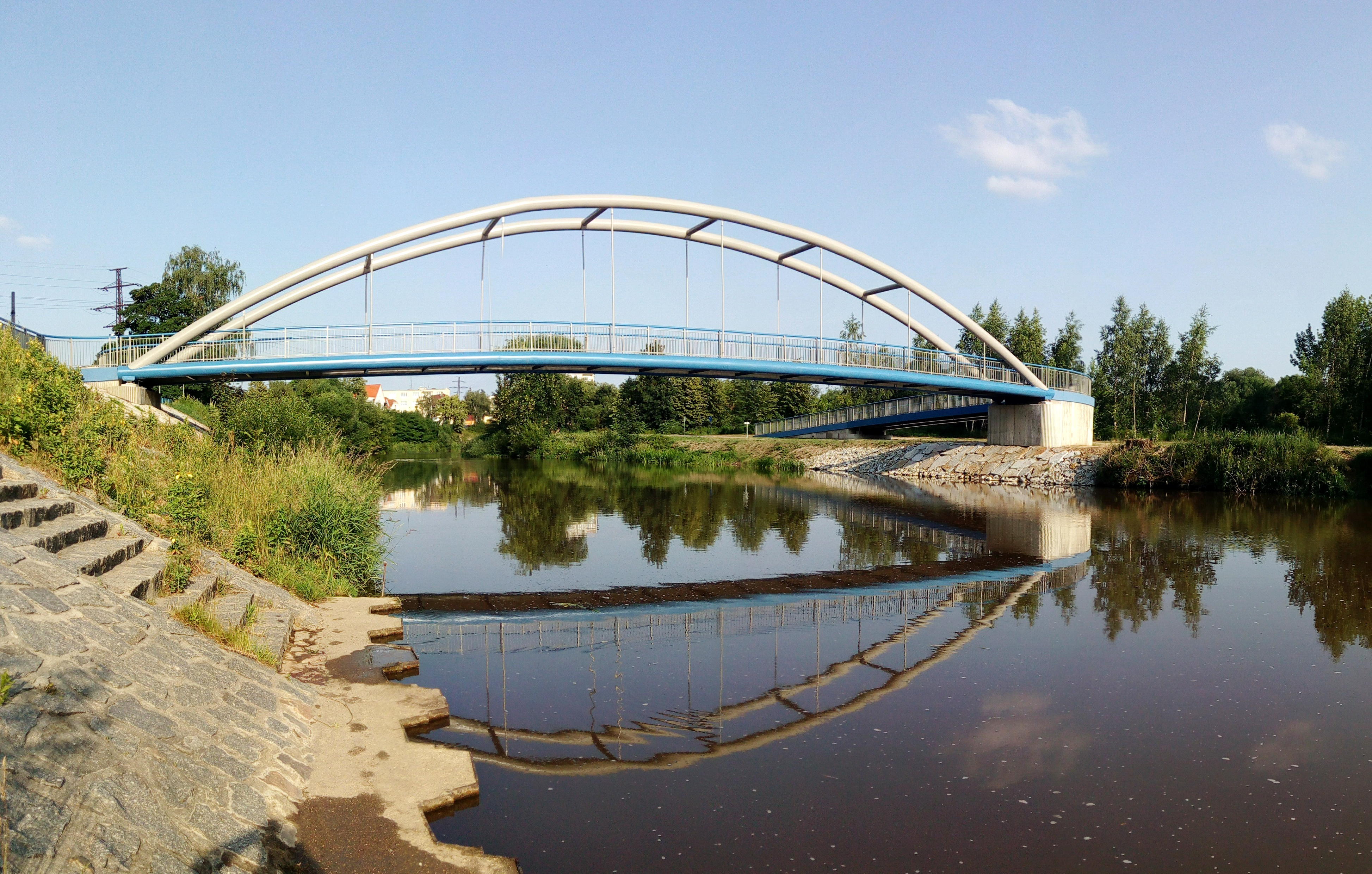 Footbridge over the Vltava river in České Budějovice, South Bohemian Region, Czech Republic.